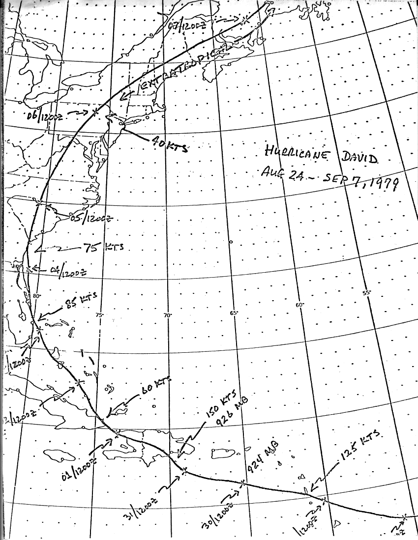 Hurricane David track from the American National Hurricane Center showing the timing in Universal Coordinated Time (UTC) and the stage of the cyclone.